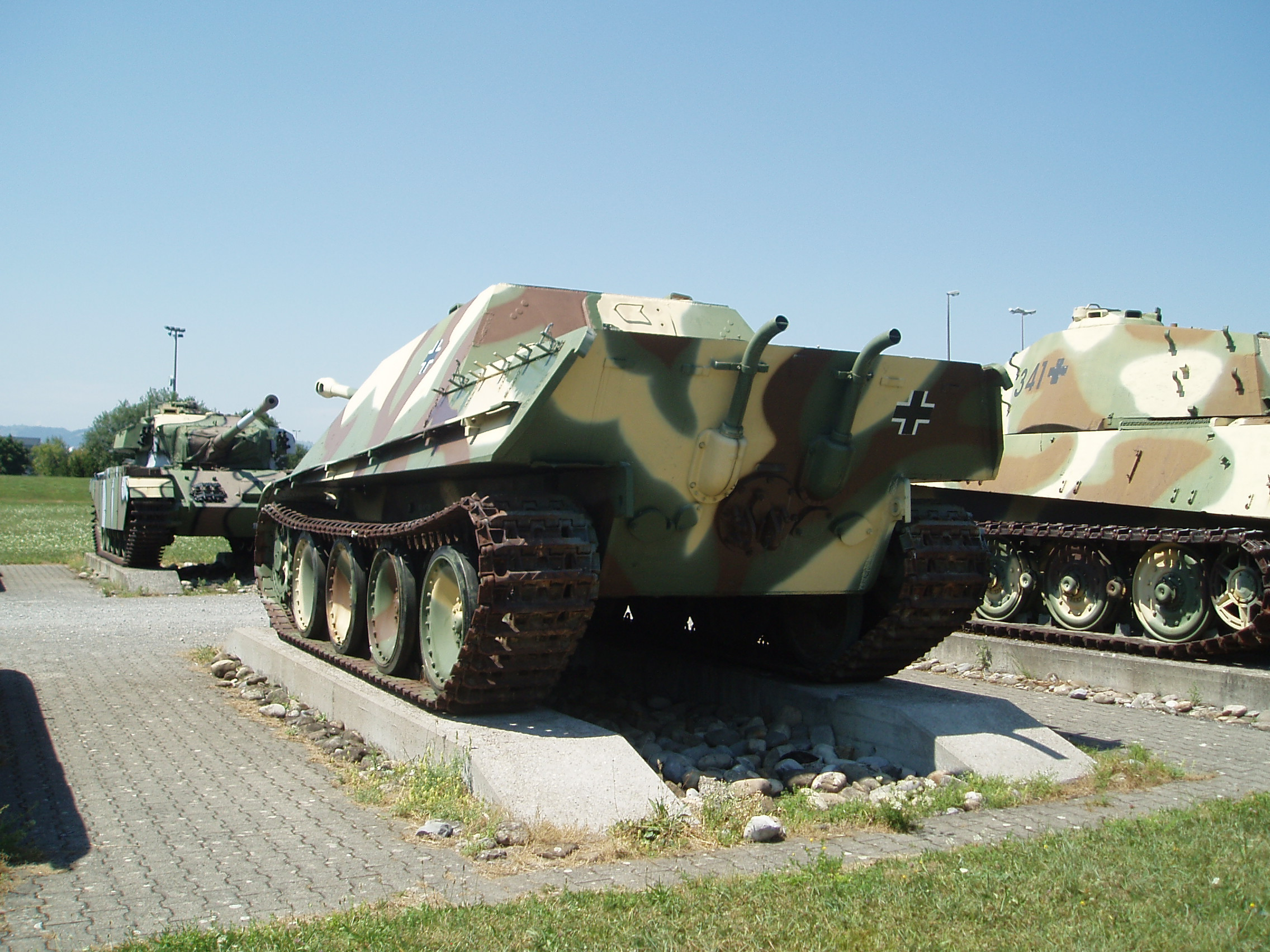 A Jagdpanther at the Panzermuseum Thun, Switzerland; side/rear view